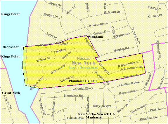 U.S. Census 2000 reference map for Plandome Heights, New York